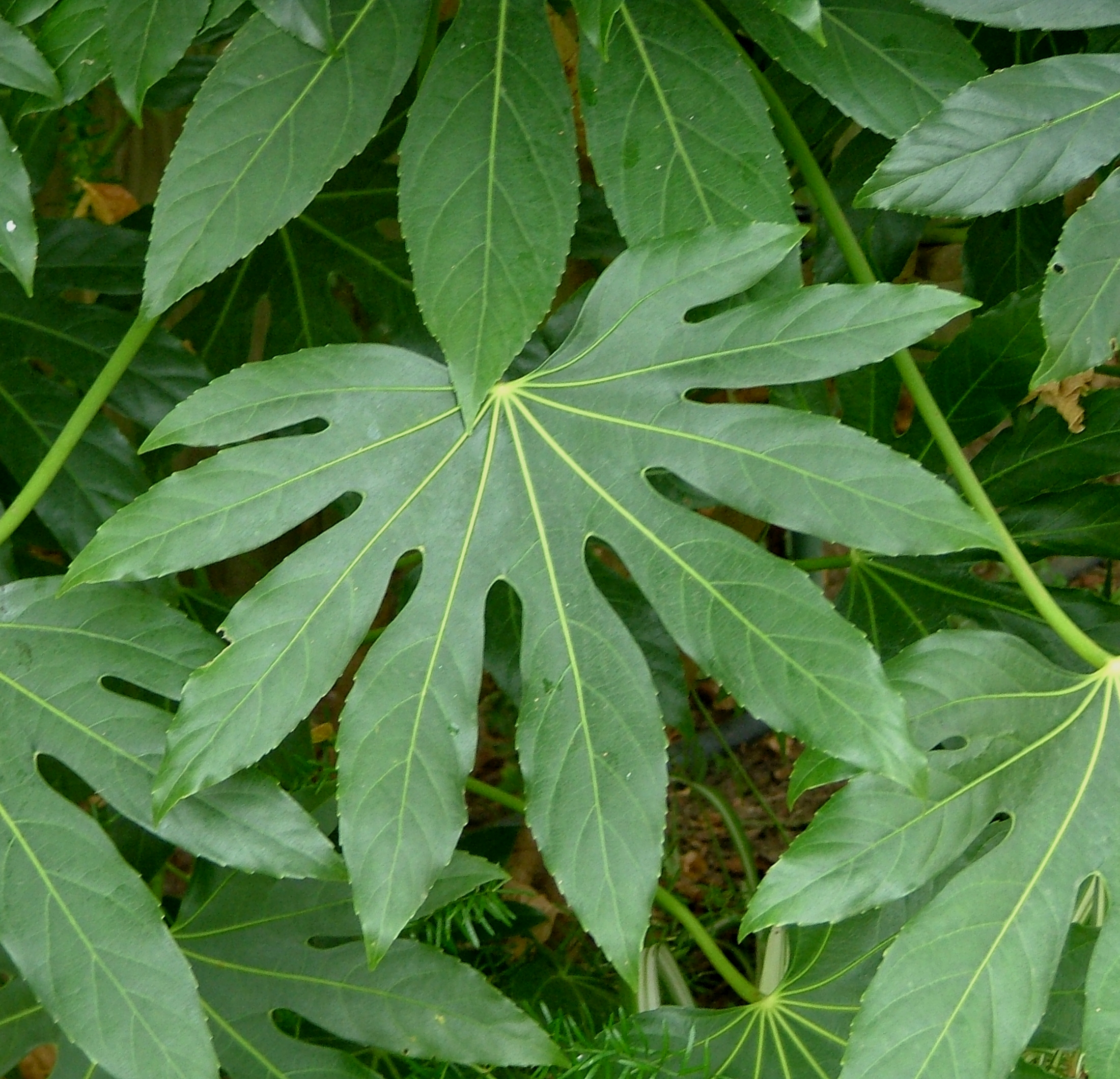 Palmate leaves of Fatsia japonica